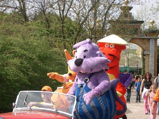 Walibi World Mascottes